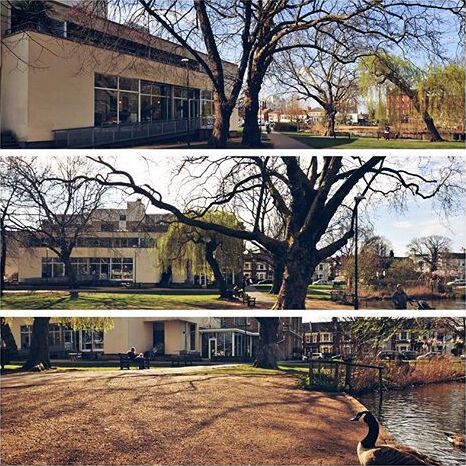 Three compiled photographs of the OSO Arts Centre taken from Barnes Green